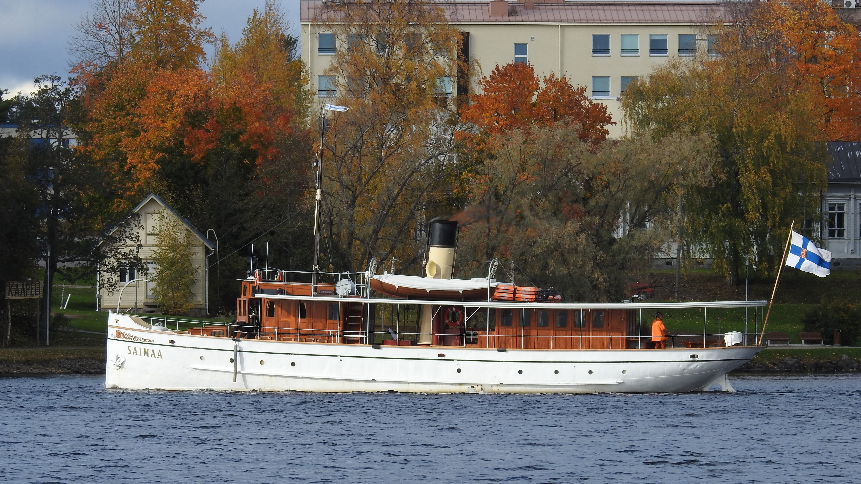 S/S Saimaa (Pihlajavesi, Karvalakkiregatta 2016)